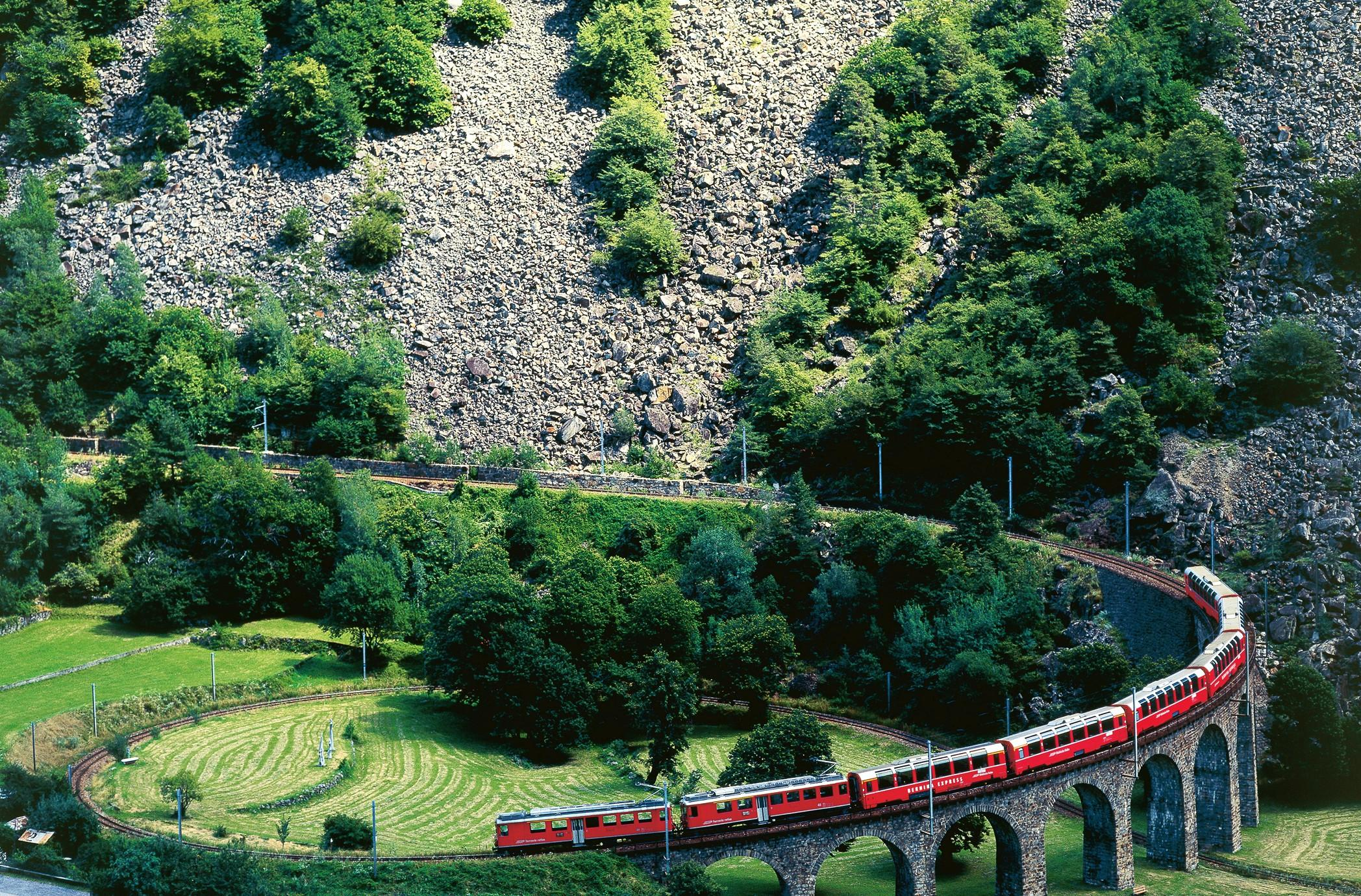 Bernina express in Brusio, canton Graubünden